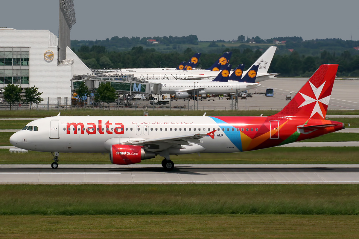 Munich (EDDM/MUC) Airport